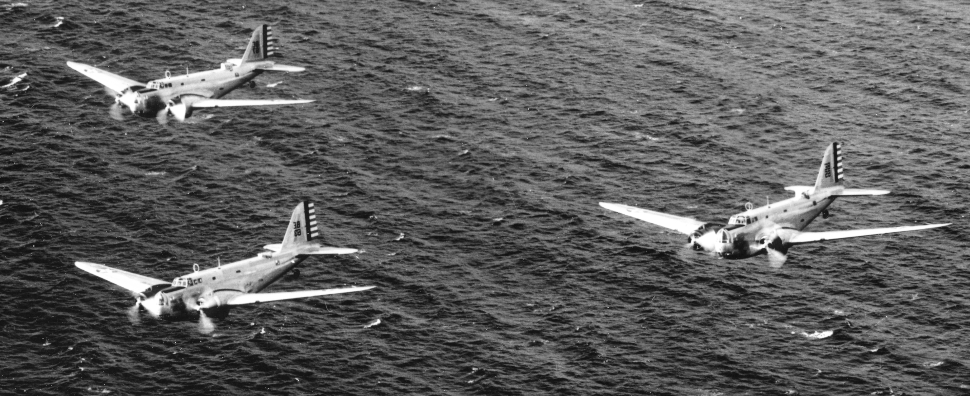 Photograph of Douglas B-18 Bolo formation during exercises over Hawaii, taken in 1940-1941.